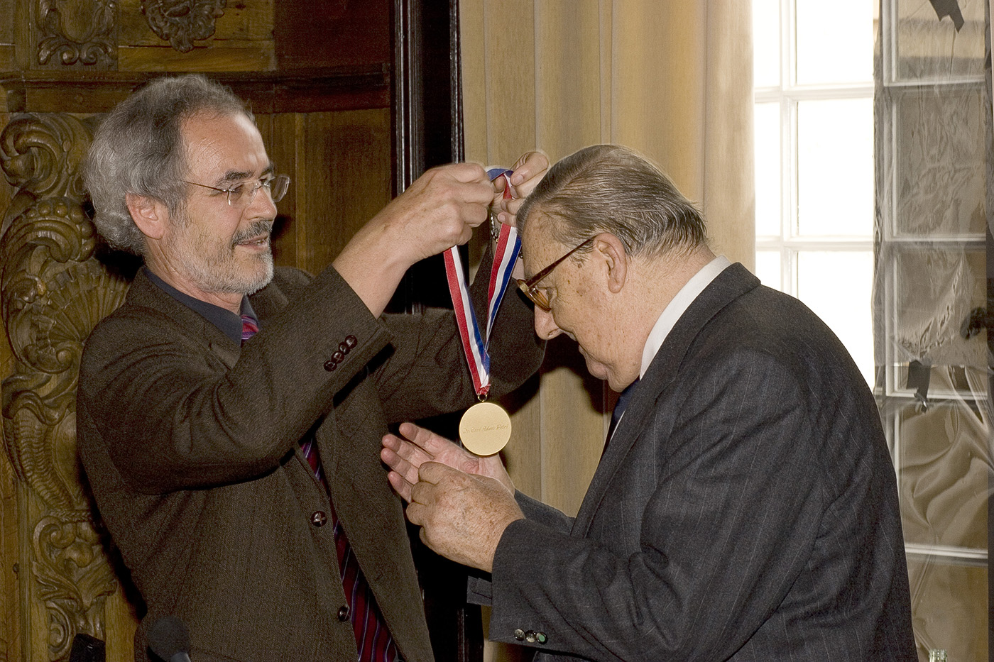 On behalf of the Society for Process & Design Science (SDPS), Bernd Krämer presents the Gold Medal of Honor to Carl Adam Petri